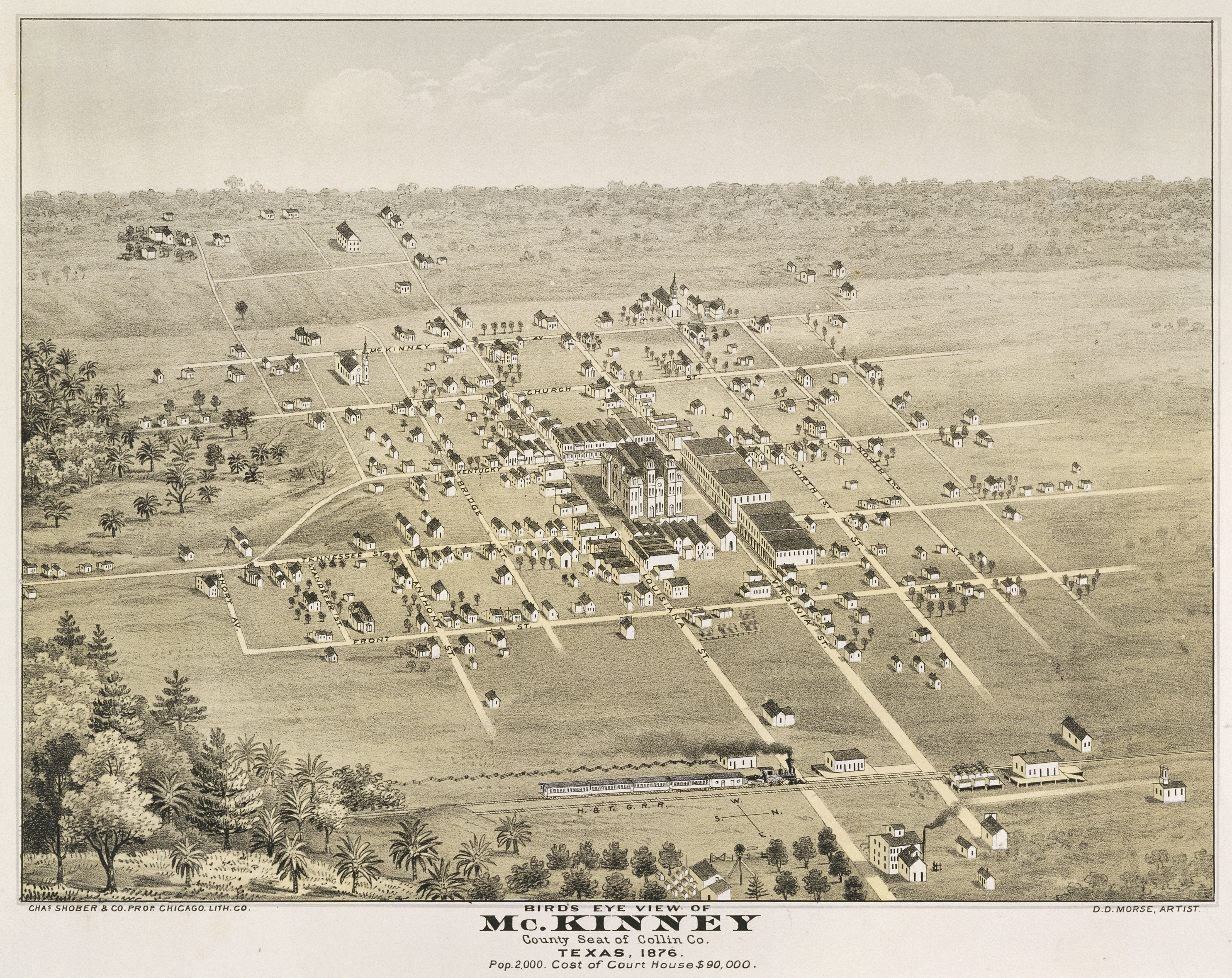 McKinney, Texas in 1876. Bird's Eye View of Mc.Kinney County Seat of Collin Co. Texas, 1876. Pop. 2.000. Cost of Court House $90,000, 1876. Toned lithograph, 10.5 x 14.25 in. Printed by Chas. Shober & Co. Prop. Chicago. Lith. Co. Amon Carter Museum, Fort Worth.